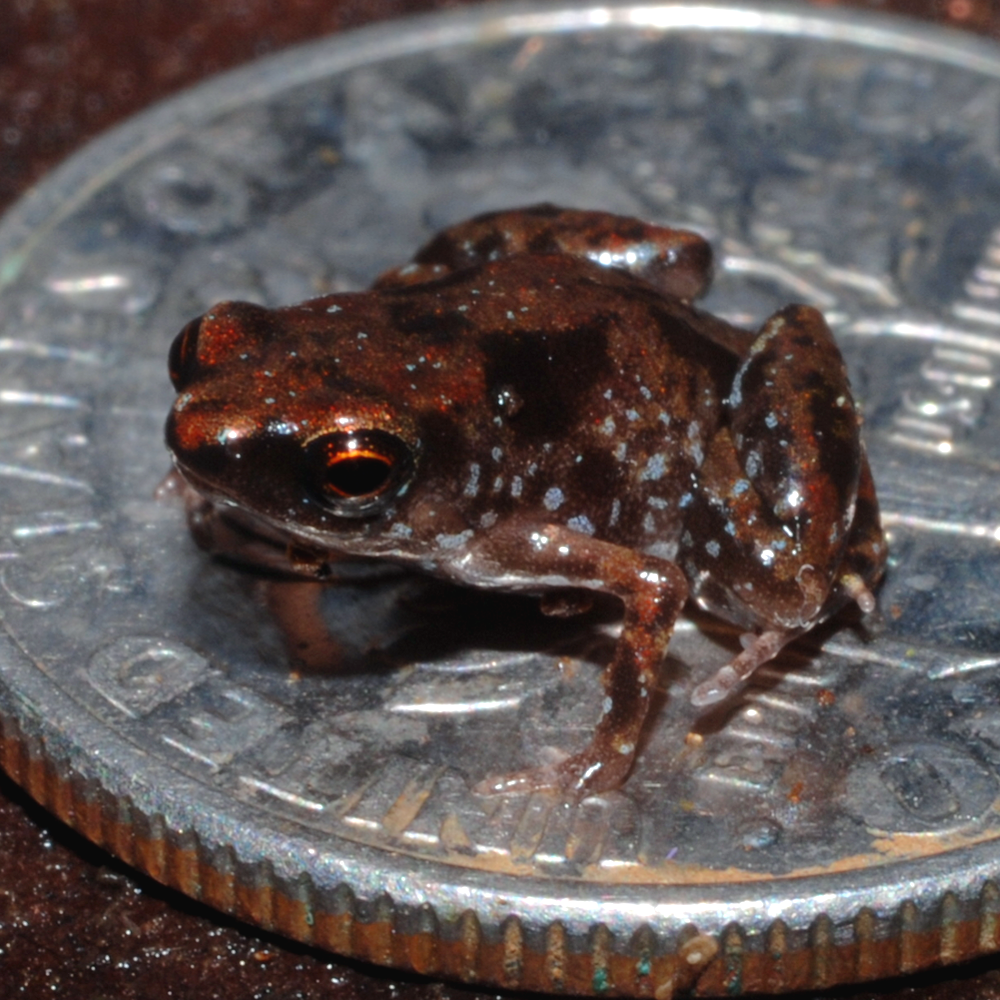 Photograph of a paratype of Paedophryne amanuensis (LSUMZ 95004) on U.S. dime (diameter 17.91 mm).